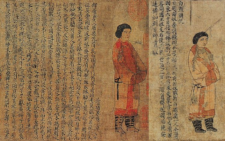 Hephthalites from period offering painting 6th century China.